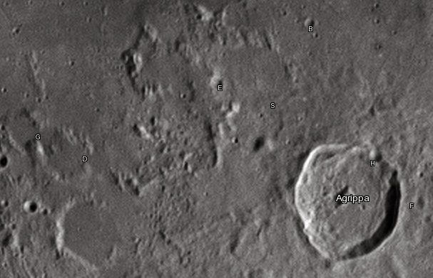 Agrippa lunar crater as seen from Earth with satellite craters labeled